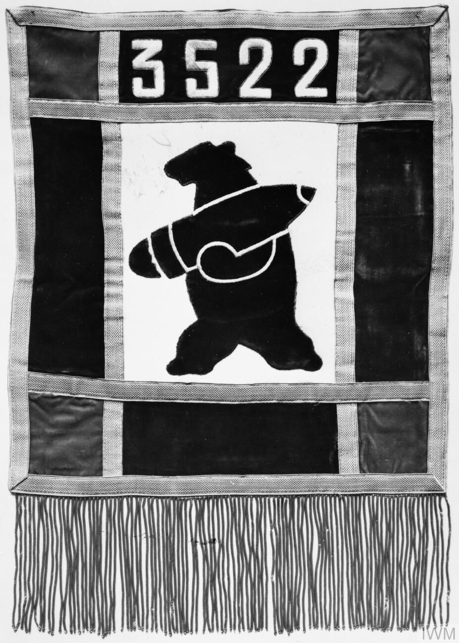 The badge of the 22nd Artillery Support Company of the 2nd Polish Corps. The unit made a design of Wojtek (Voytek) the bear carrying a heavy artillery their emblem after his work in such a role during the campaigns in the Middle East and Italy.